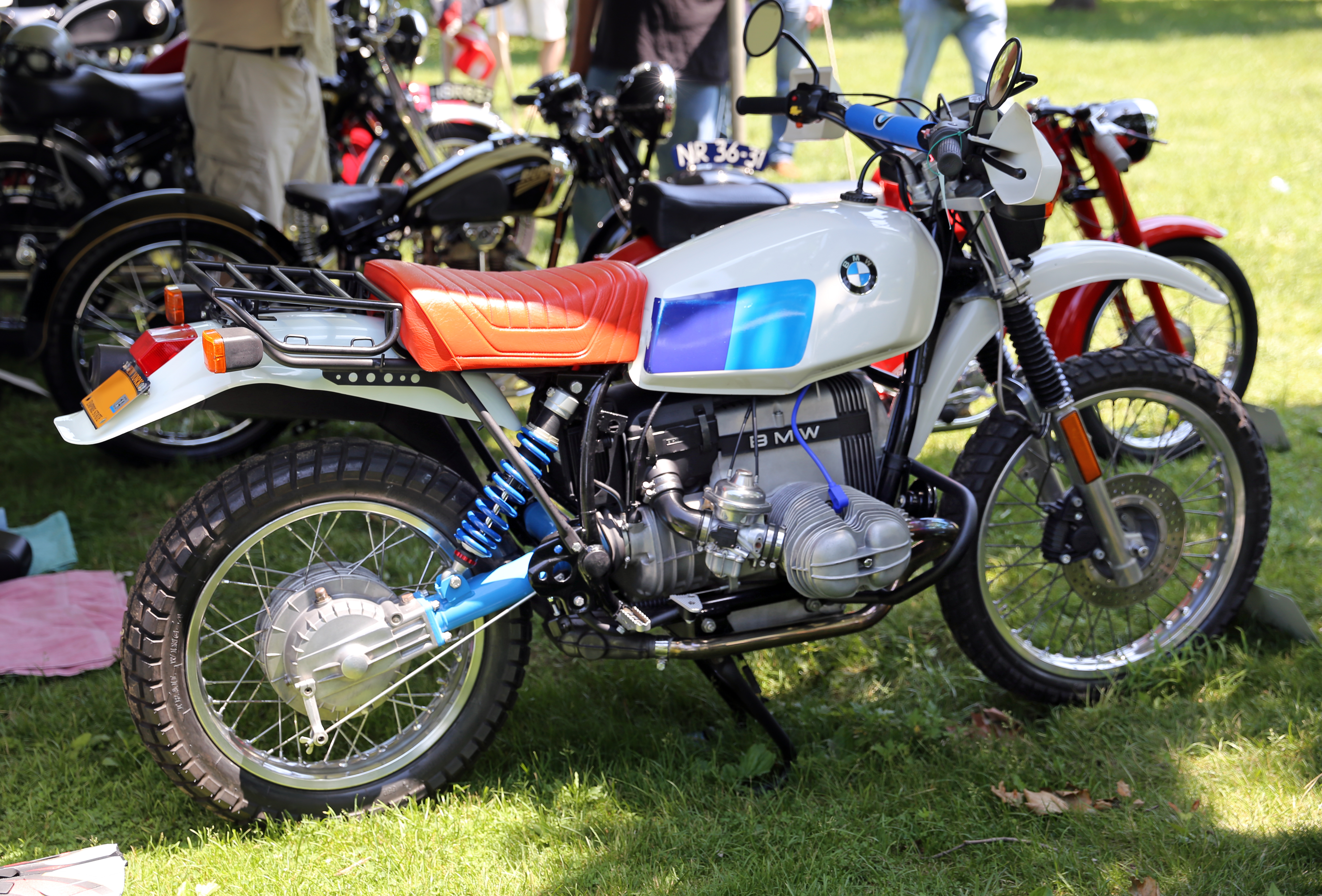 1981 BMW R80 G/S (Gelände + Sport) at the 2013 Greenwich Concours d'Elegance.